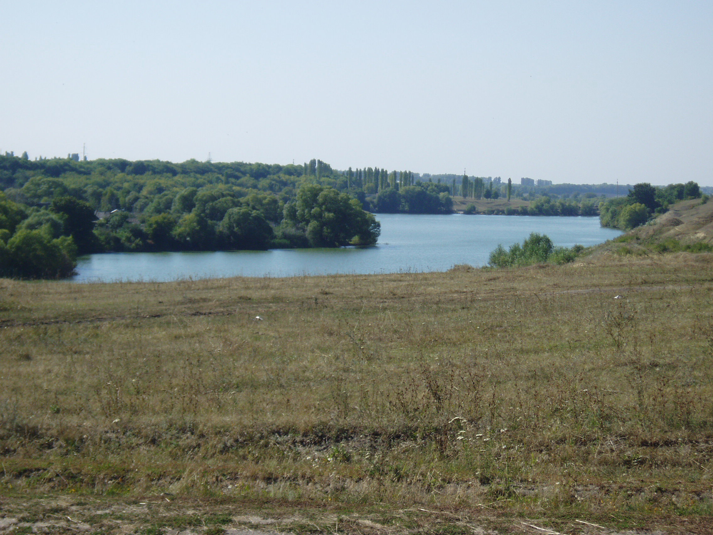 The river Olshanka (Rtishchevo)